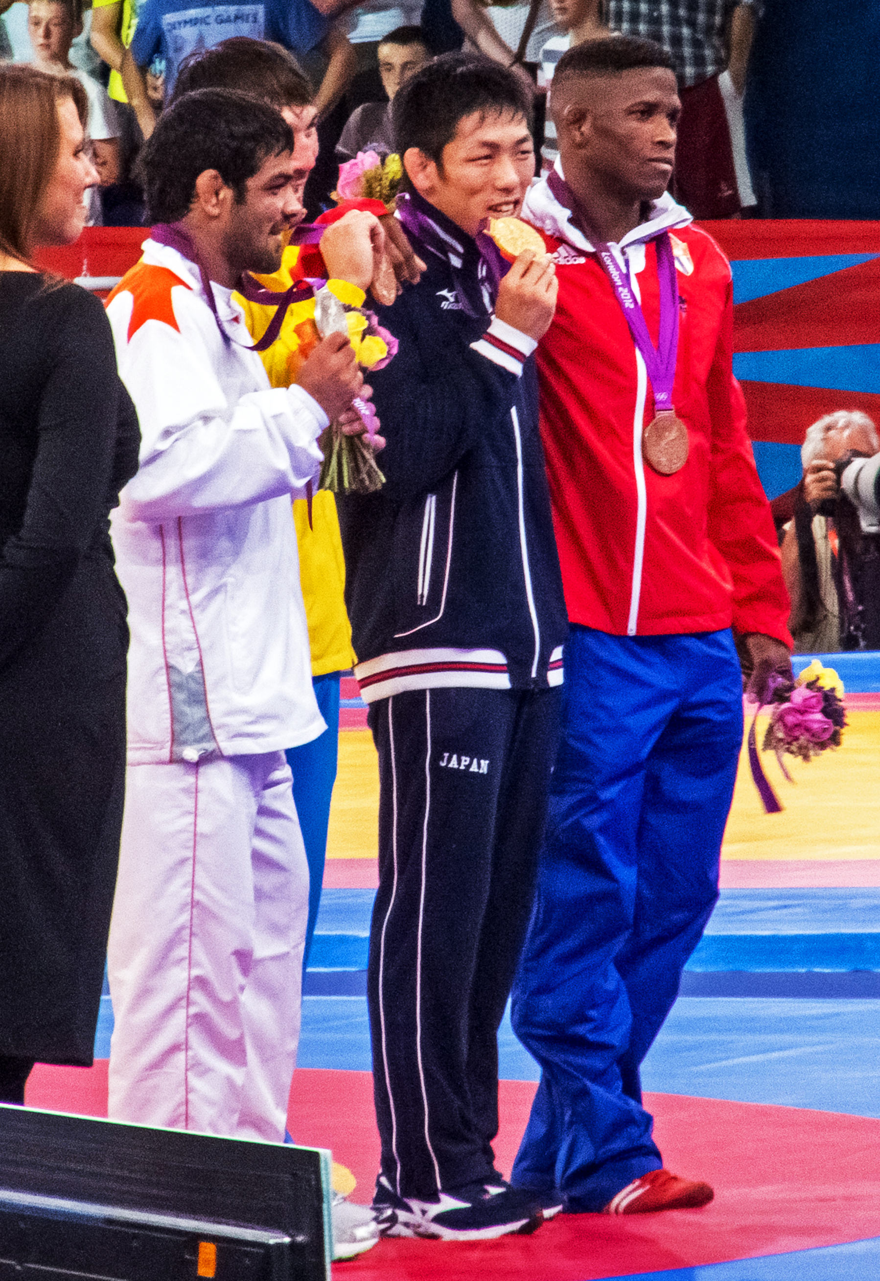 Medalists at the 2012 Summer Olympics. Left to right: Sushil Kumar (silver), Akzhurek Tanatarov (bronze), Tatsuhiro Yonemitsu (gold) and Liván López (bronze).